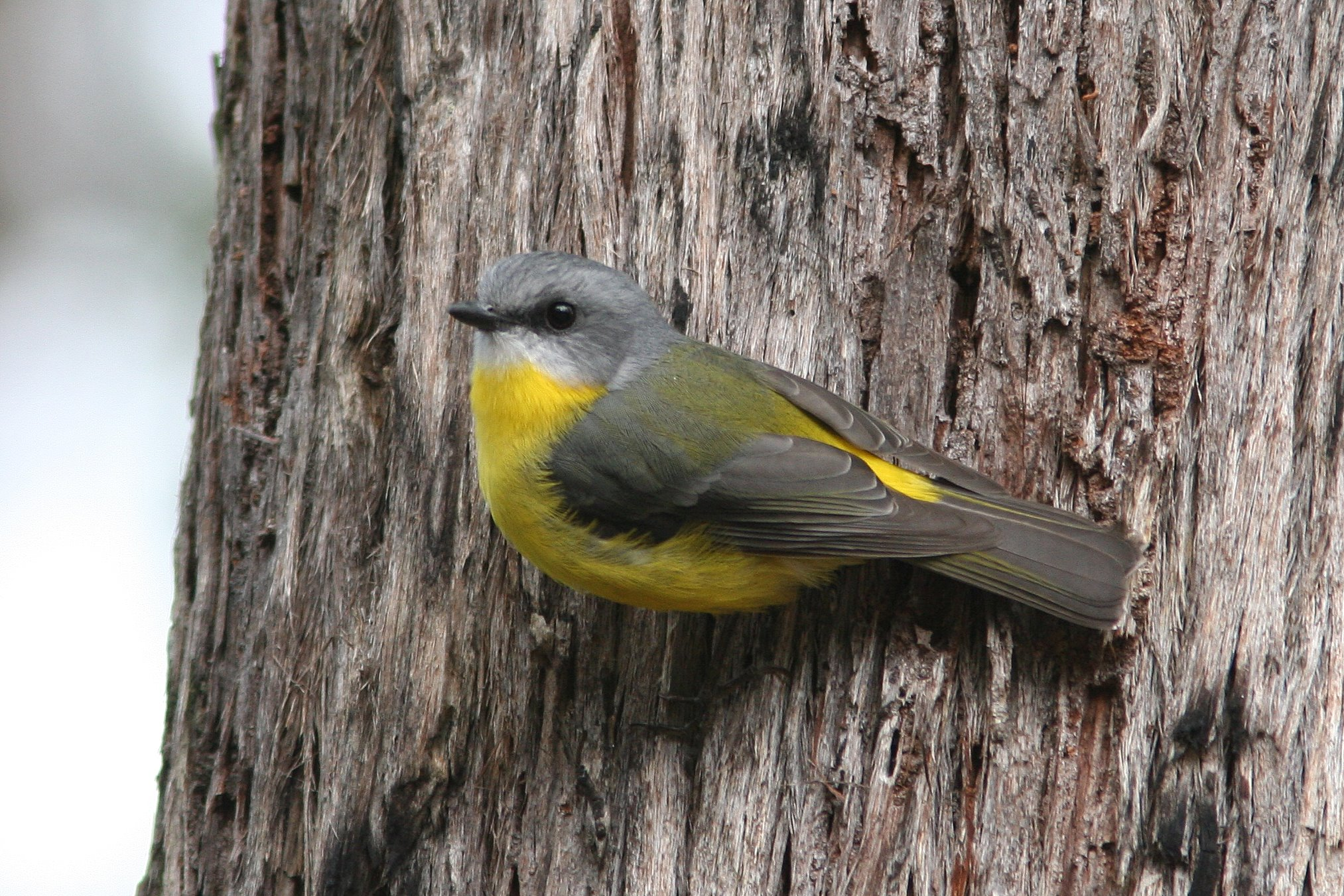 Eastern Yellow Robin, Eopsaltria australis